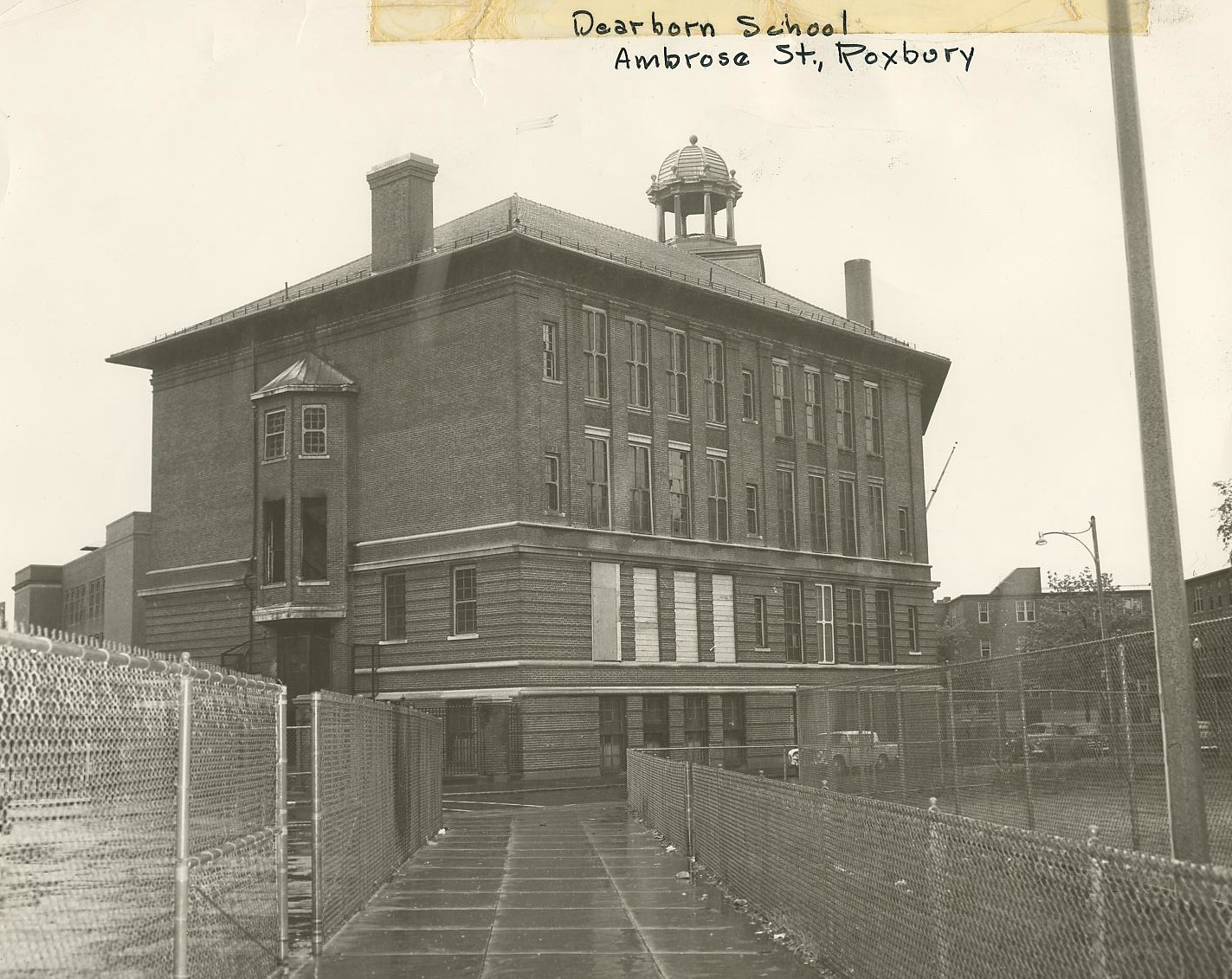 Dearborn School (Exterior)